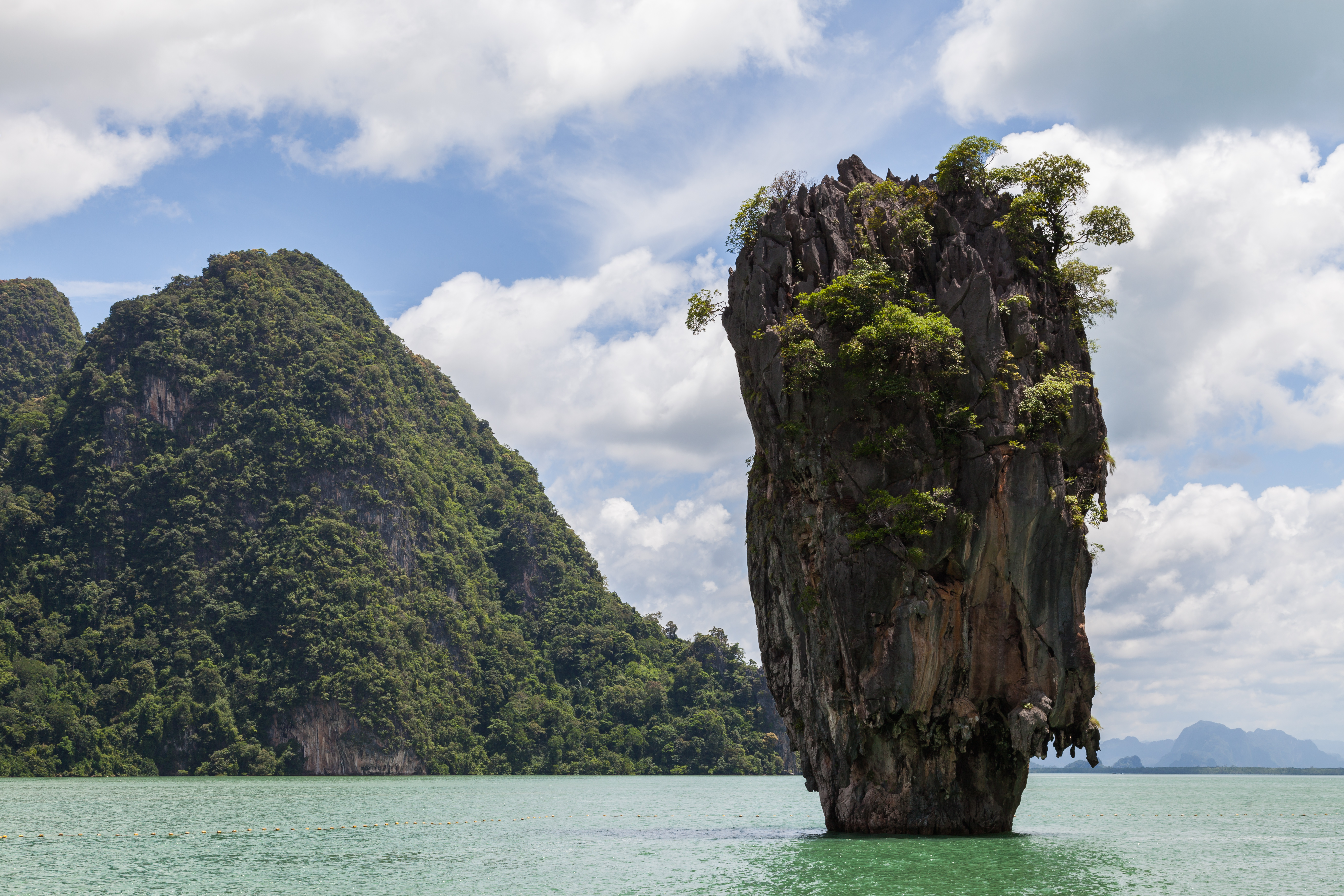 Tapu Island, Phuket, Thailand